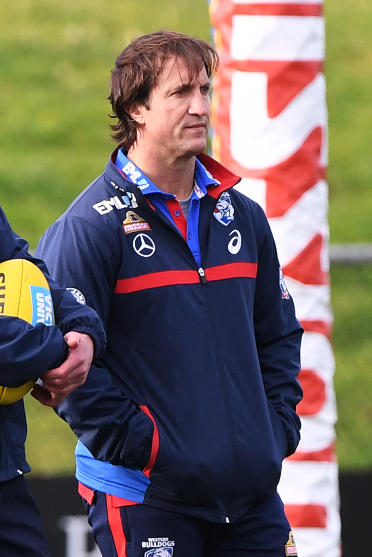 Luke Beveridge of the Western Bulldogs during Western Bulldogs training on 7 August 2018 at Whitten Oval in Melbourne, Victoria.